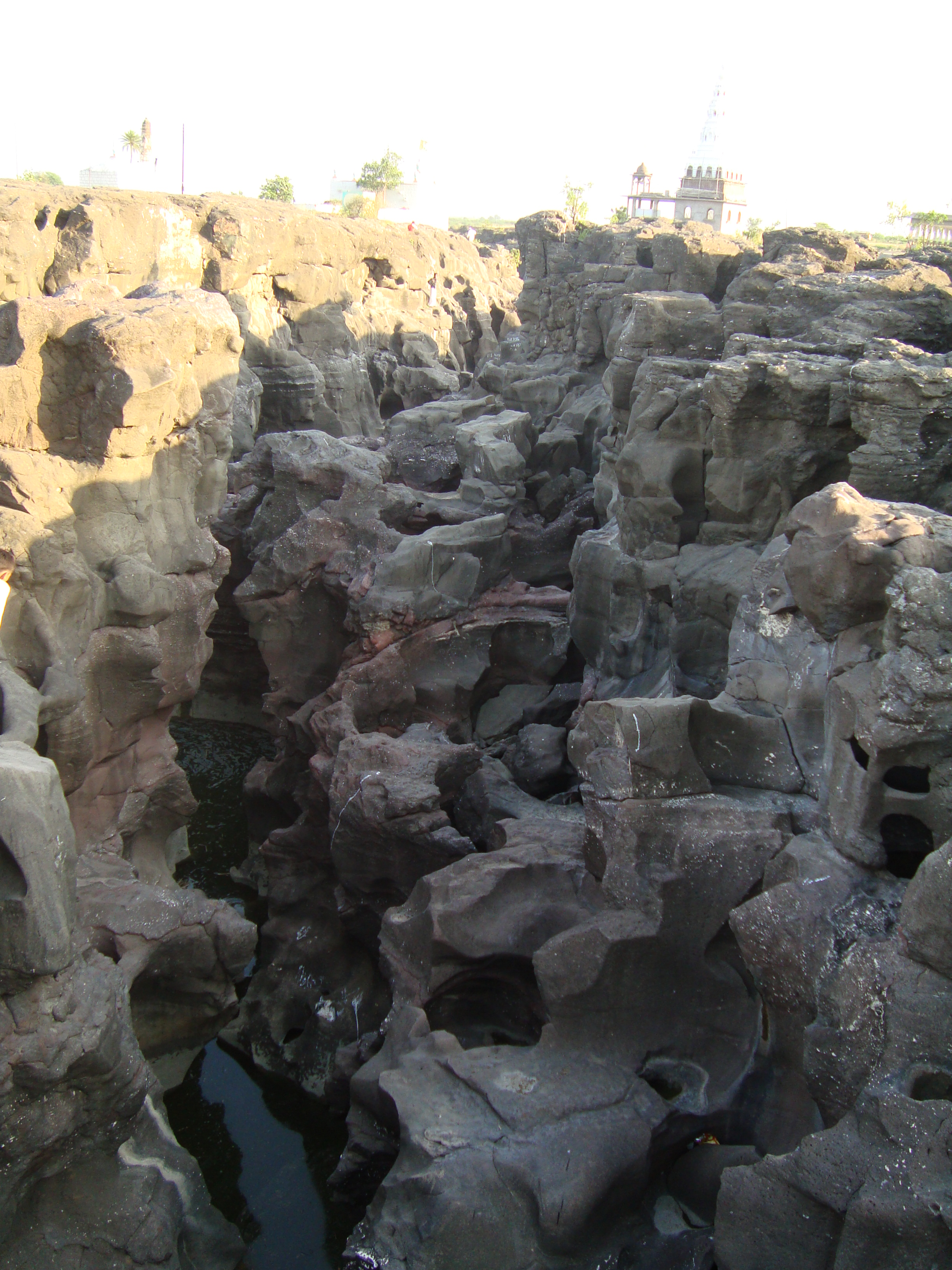 Potholes near Takali Haji